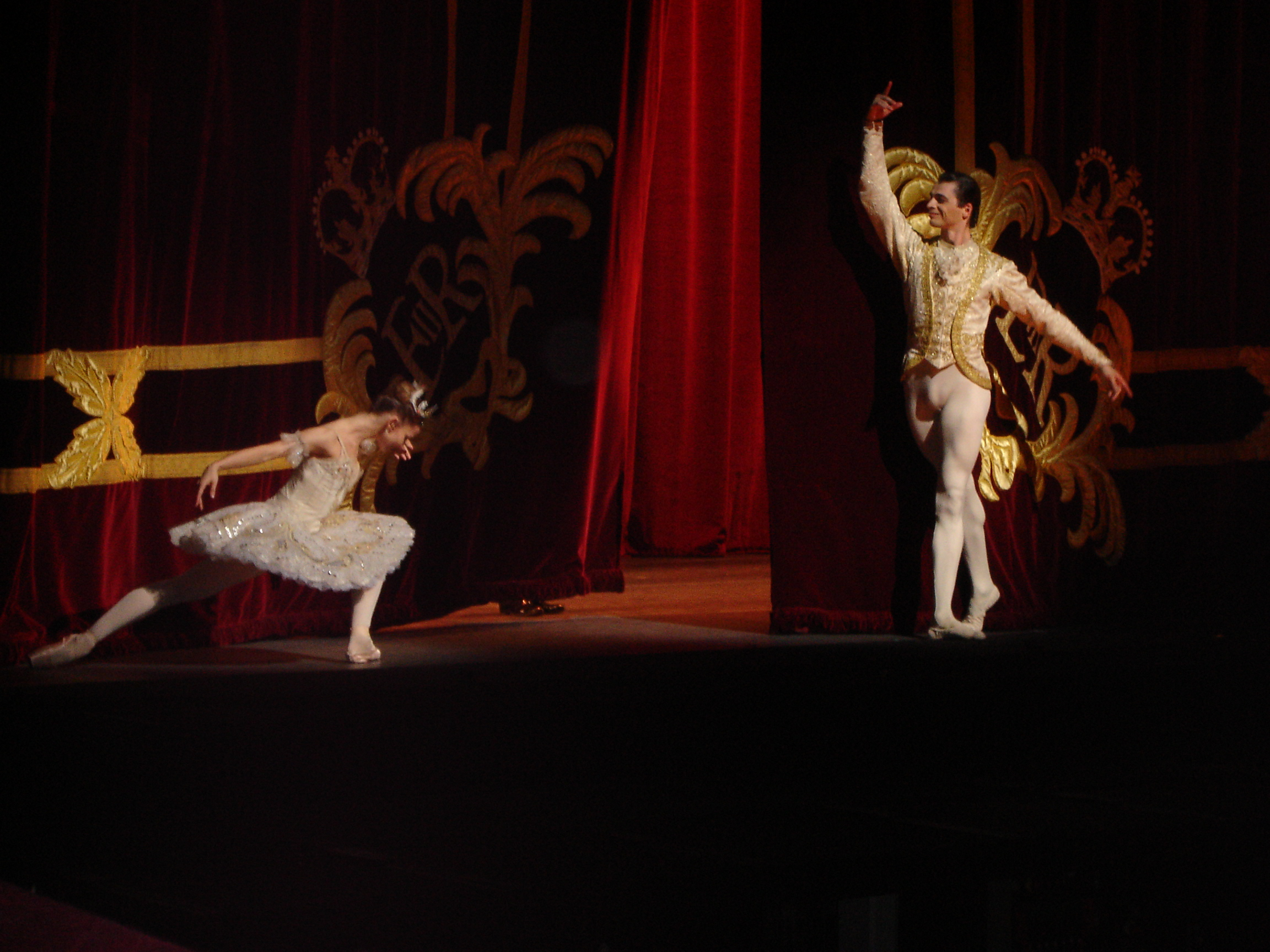 Evgenia Obraztsova and David Makhateli at Covent Garden, after dancing 'The Sleeping Beauty' on 14th November, 2009.